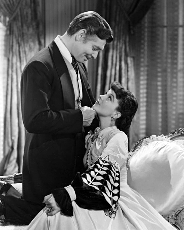 Publicity photo of Clark Gable and Vivien Leigh in Gone With the Wind.